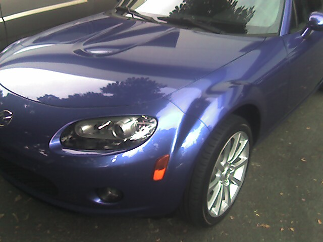 Mazda MX-5 Stormy Blue. American spec, close-up.